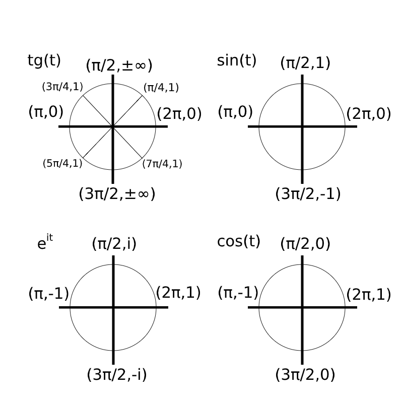 cos(t), sin(t), e^jt, tg(t)